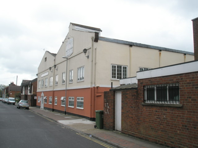 Cosham Court residential home, formerly a Territorial Force Drill Hall, c1910